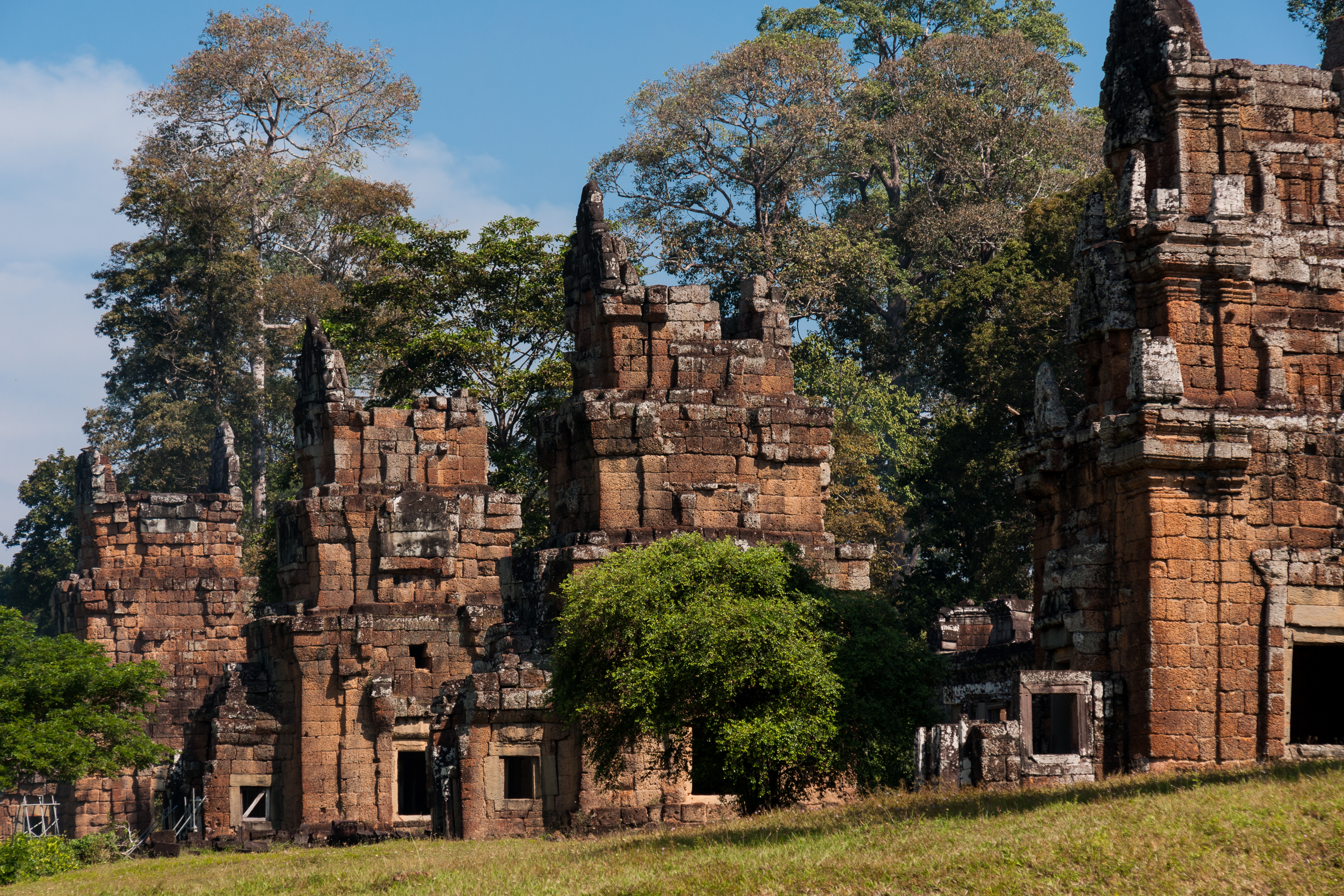 Ankor Thom, Siem Reap, Cambodia: Suor Prat Towers in the Angkor Thom Area